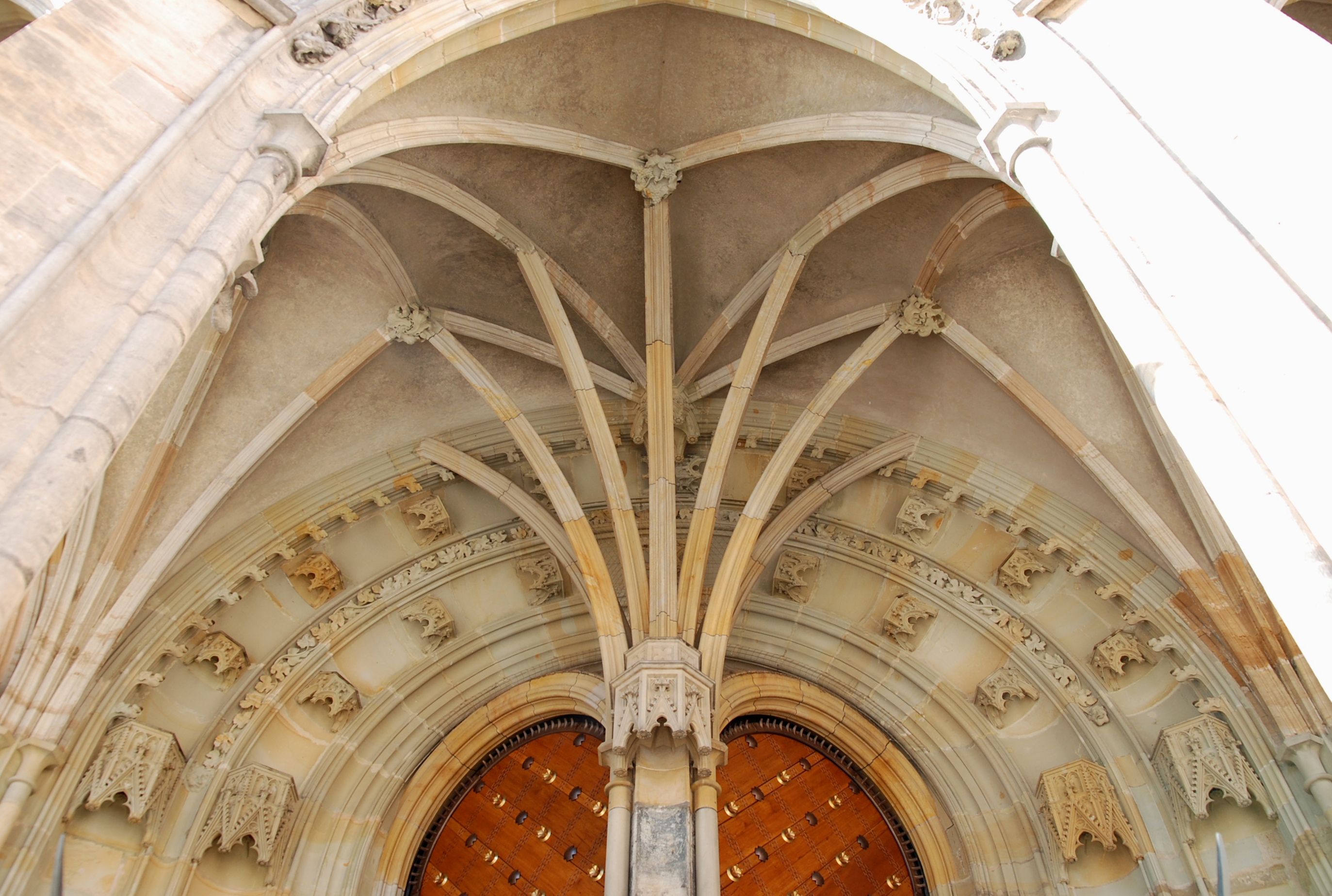 Golden Gate by Peter Parler. St. Vitus Cathedral, Prague